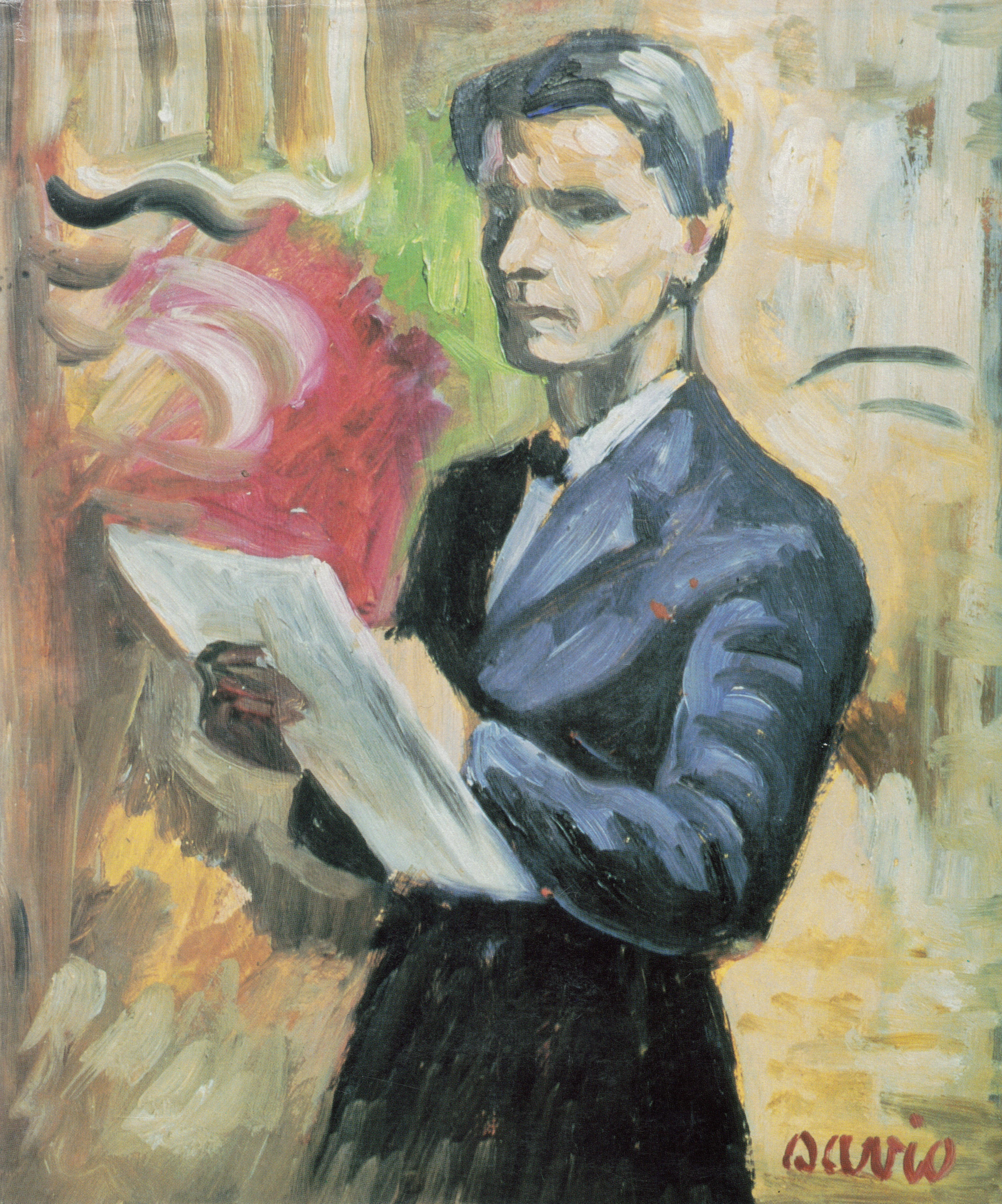 Selfportrait of Norwegian Sami artist John Savio.